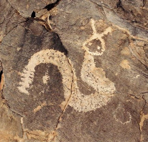 Rock Art (Pony Hills and Cook's Peak, New Mexico) Image Information: El Paso Archive. Photo by E.Kay Luther